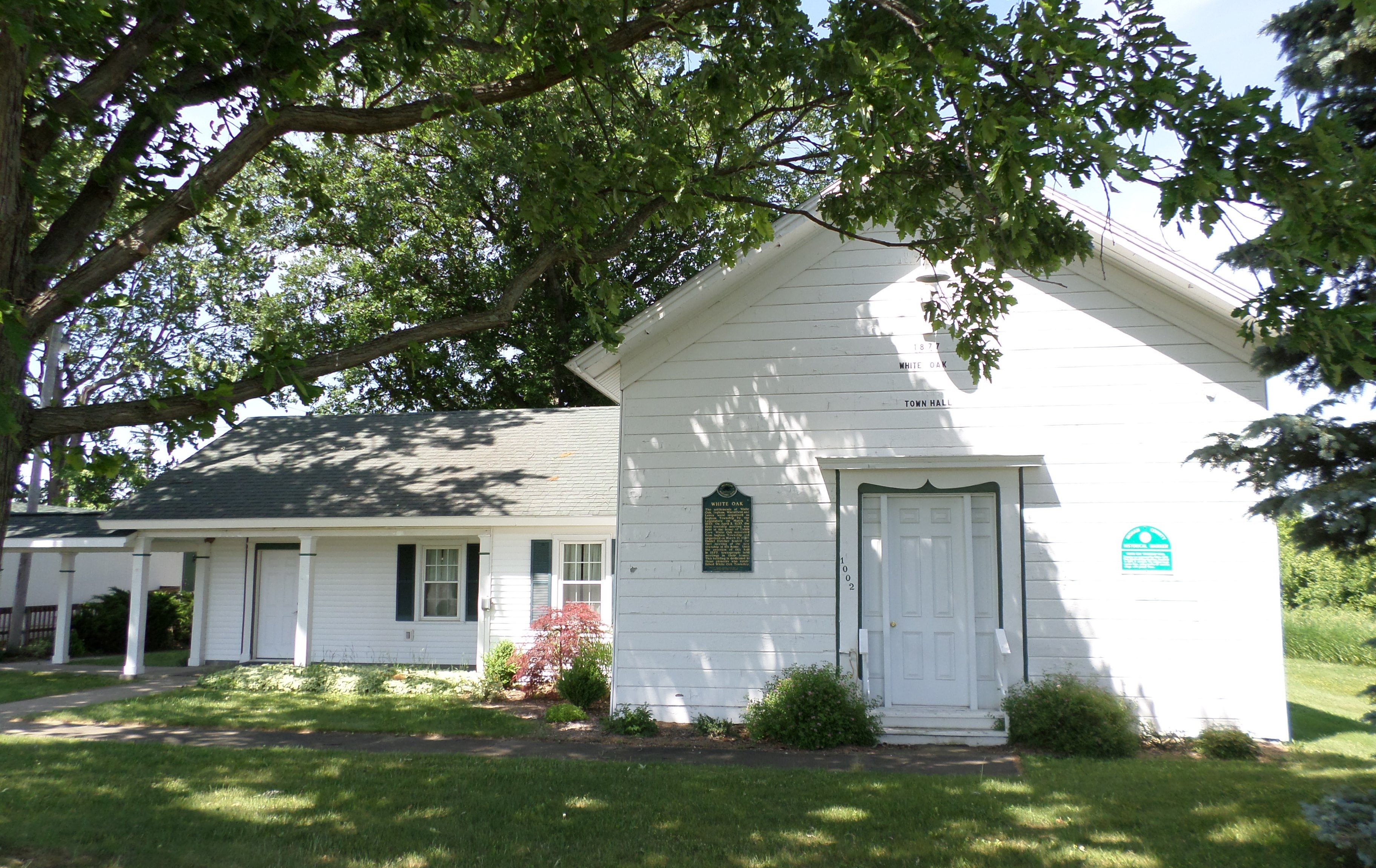 The original White Oak Township hall, located next to the current offices, at 1002 S M-52, White Oak Township, MI. The building is listed as a Michigan State Historic Site.